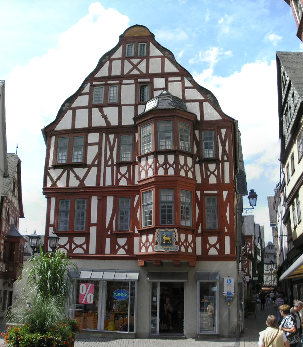 Old timber framed building in the old towne of Limburg